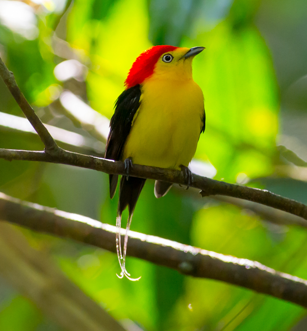 Pipra filicauda Wire-tailed Manakin